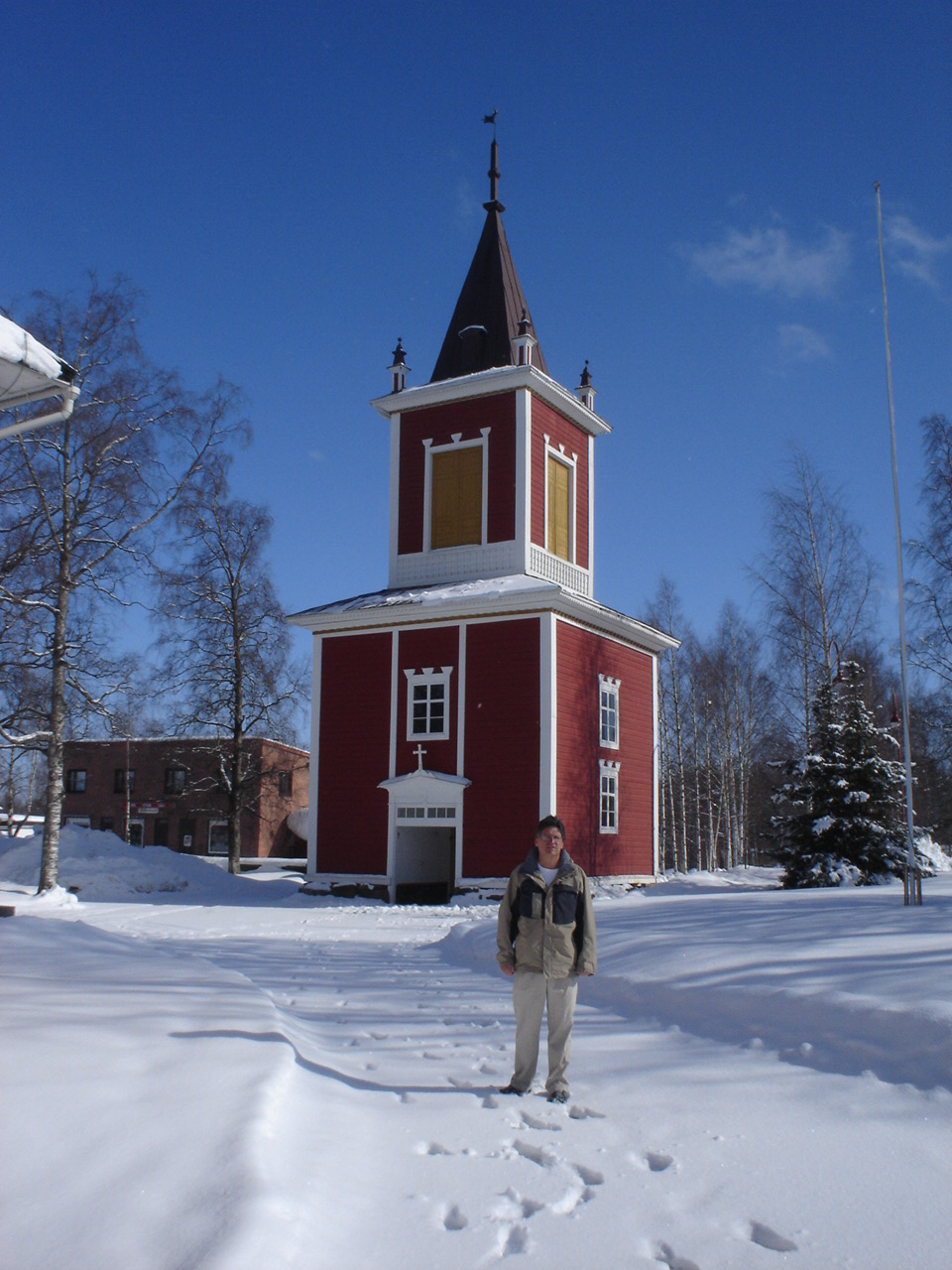 Bell tower in Kortesjärvi, Kauhava, Finland